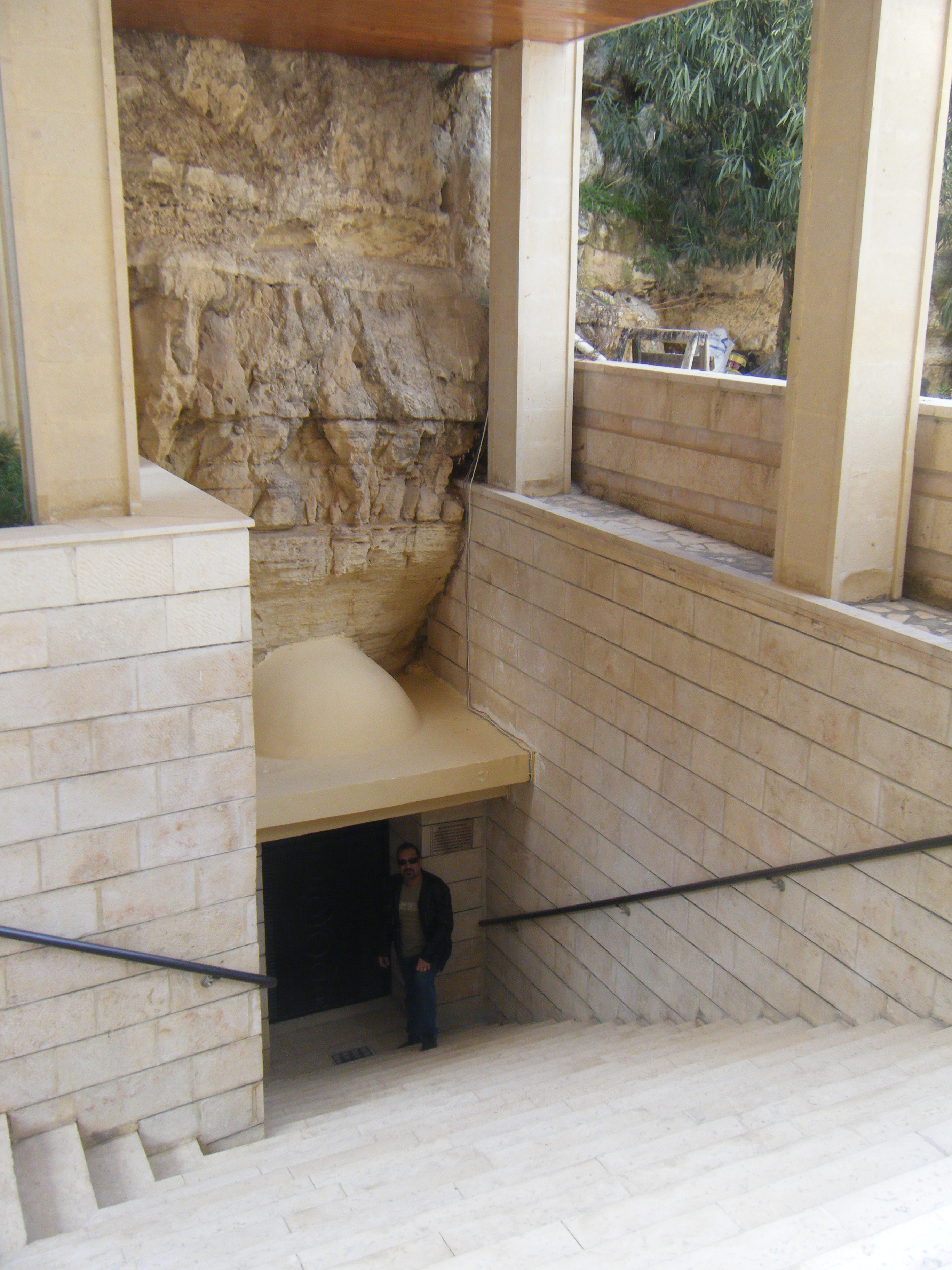 Ottoman memorial of Turkish troops during IWW in Salt, Jordan